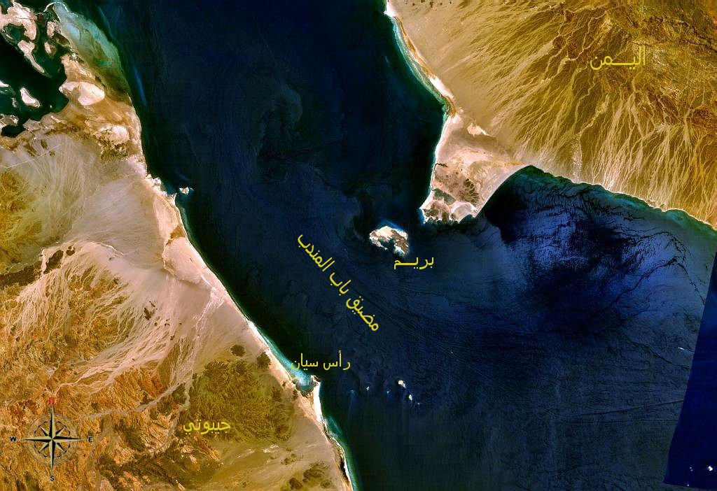 NASA picture with an Arabic description of Bab-el-Mandeb